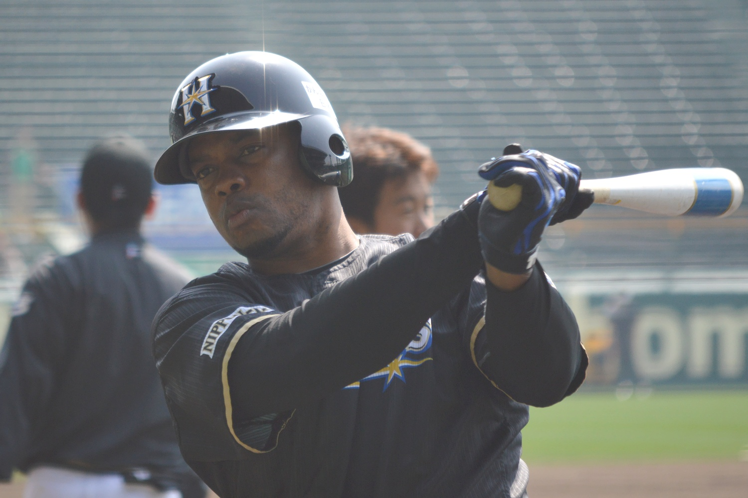 NF-Michel-Abreu20130309